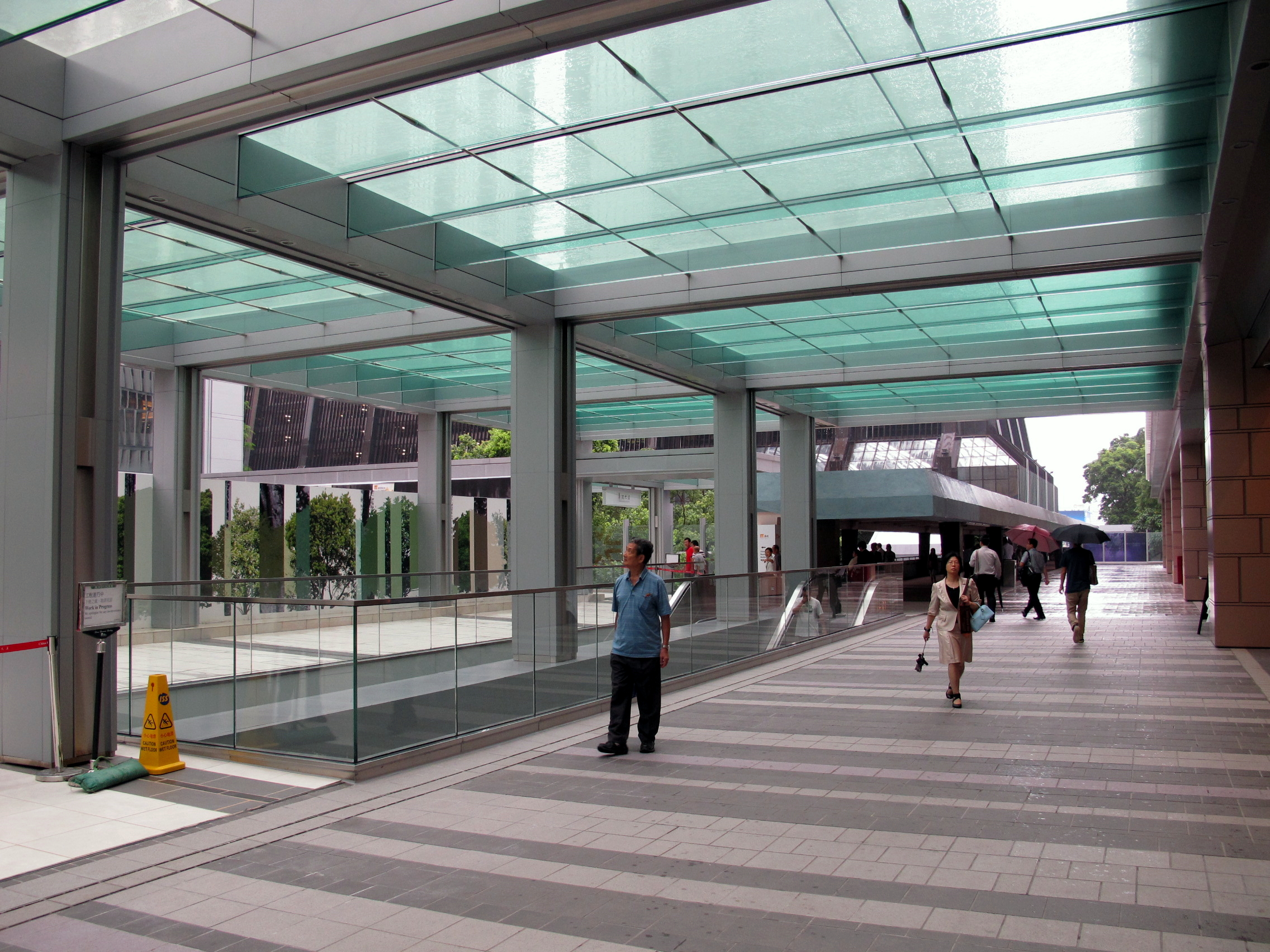 Causeway Centre Coverway